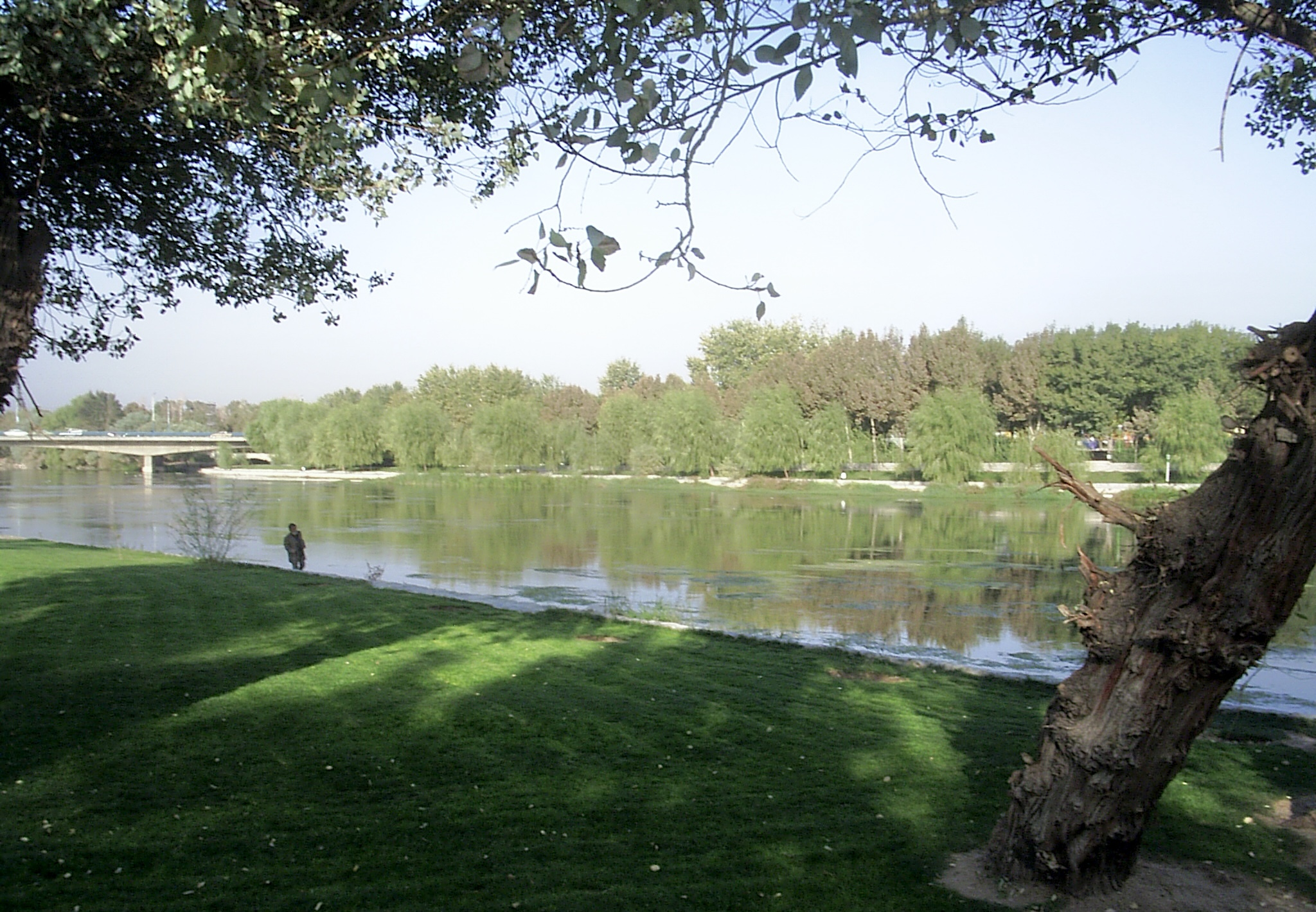 Zayande rood-Zayanderud (Zayandeh River) in the vicinity of Pole-Vahid, Isfahan, Iran.